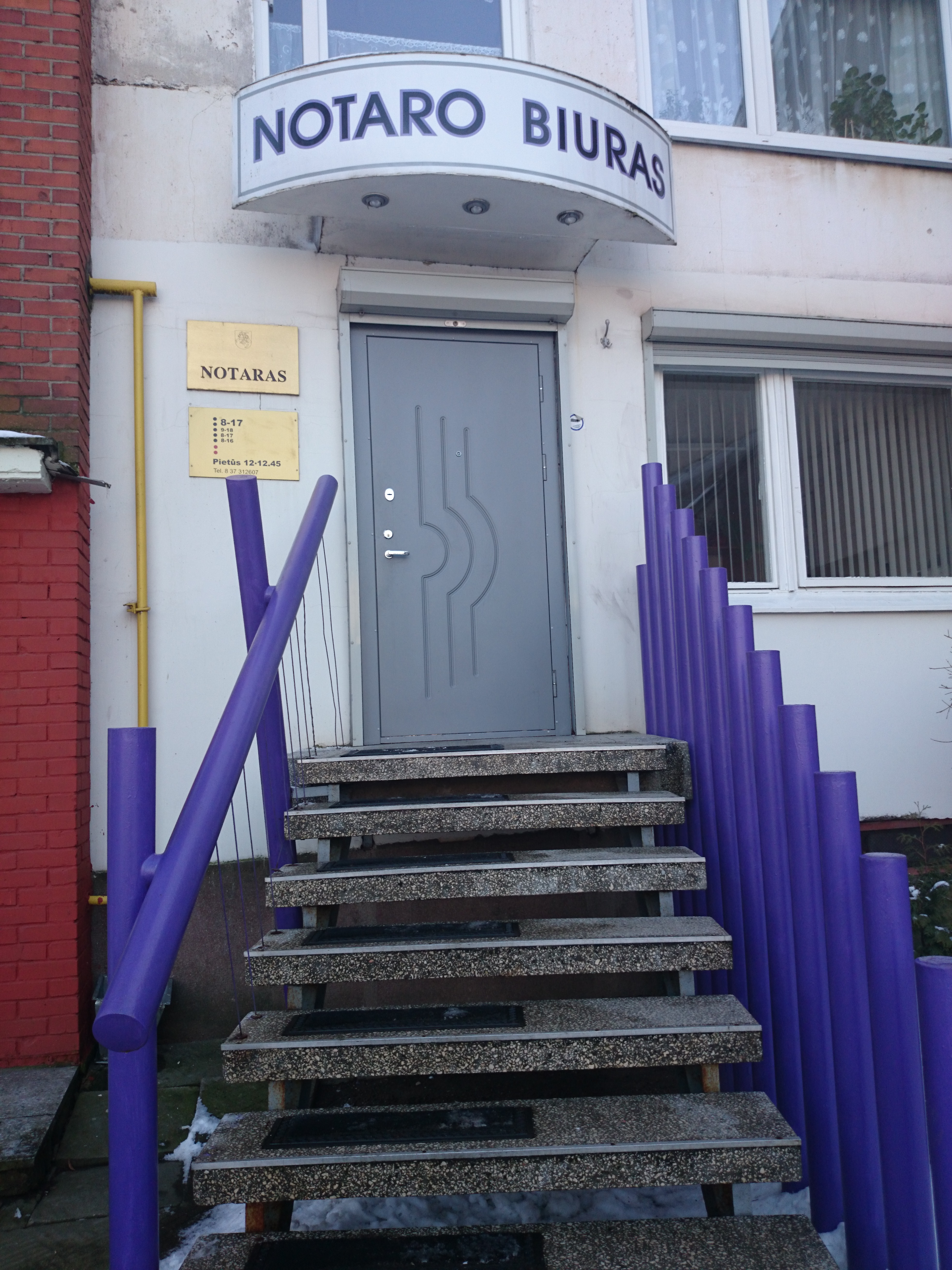 Notaro biuras in Kaunas